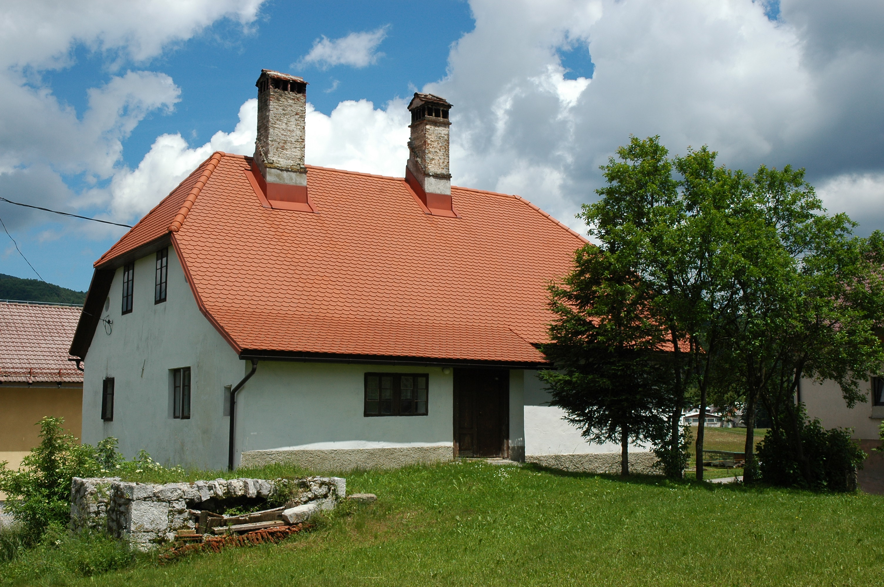 Parson's house in Babno Polje, Slovenia